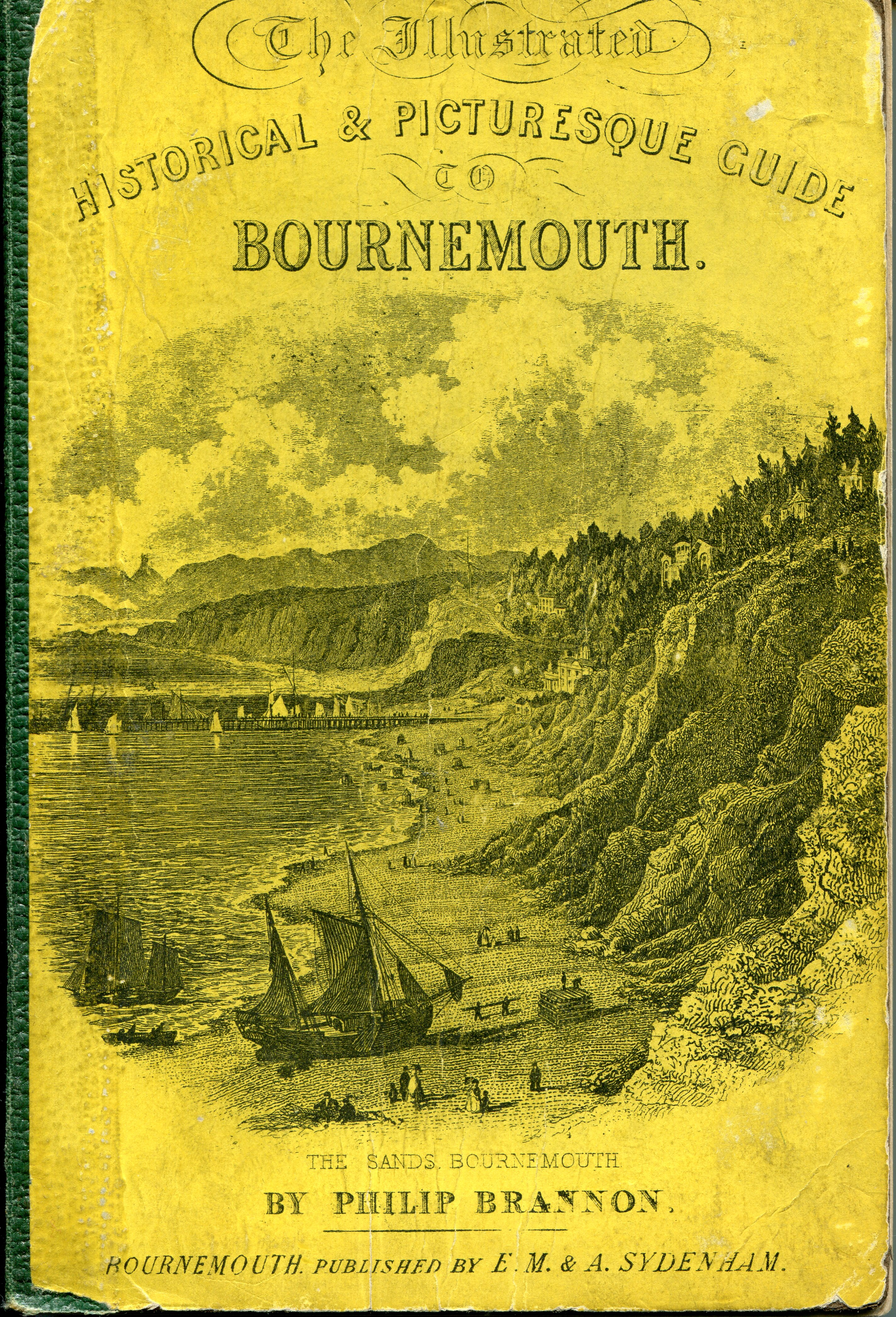 Scan of the cover of the 1870 edition of the Illustrated Historical and Picturesque Guide to Bournemouth by Philip Brannon. Featuring an engraving by Brannon of the beach and cliffs from east of the pier.